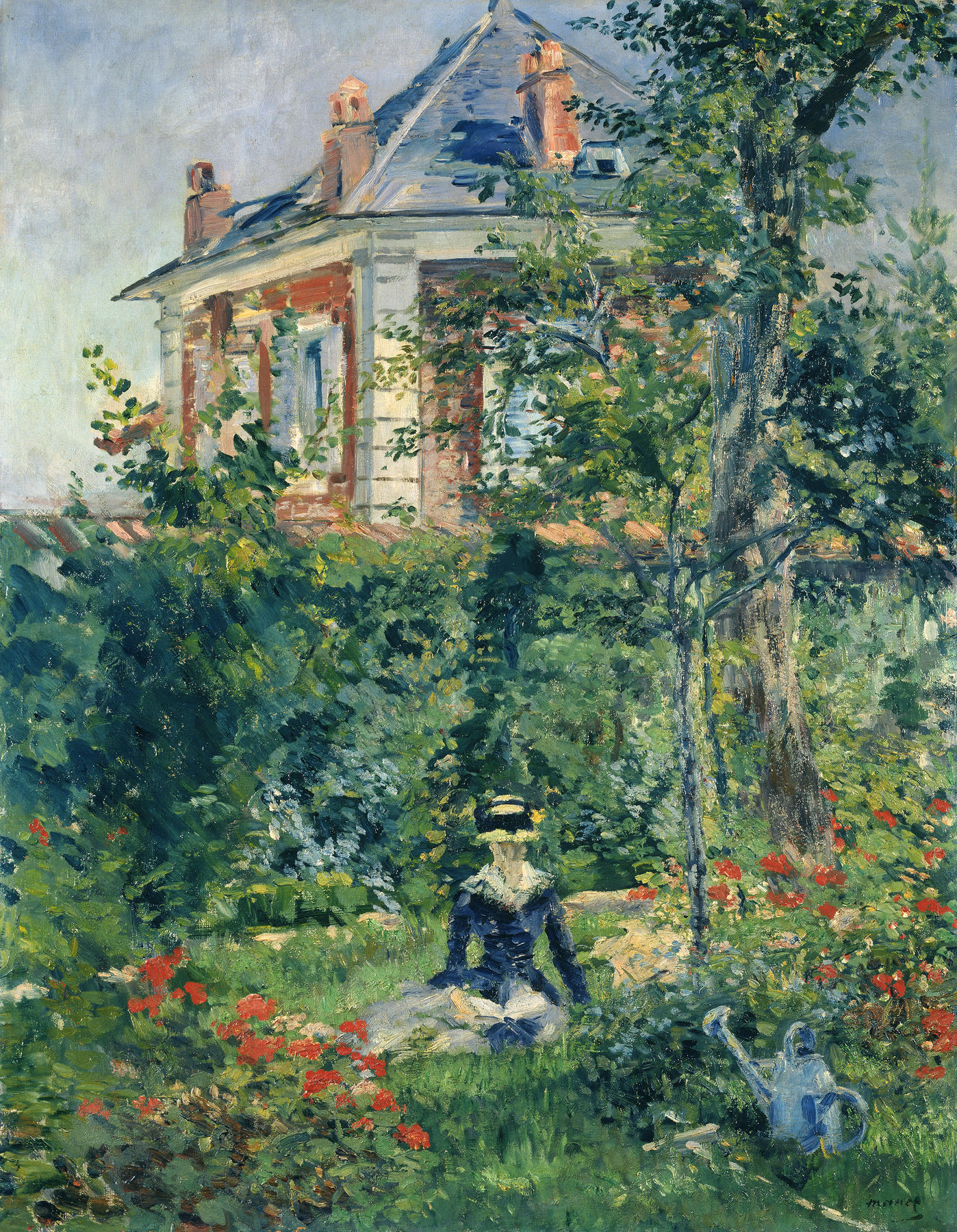 Girl in the Garden at Bellevue